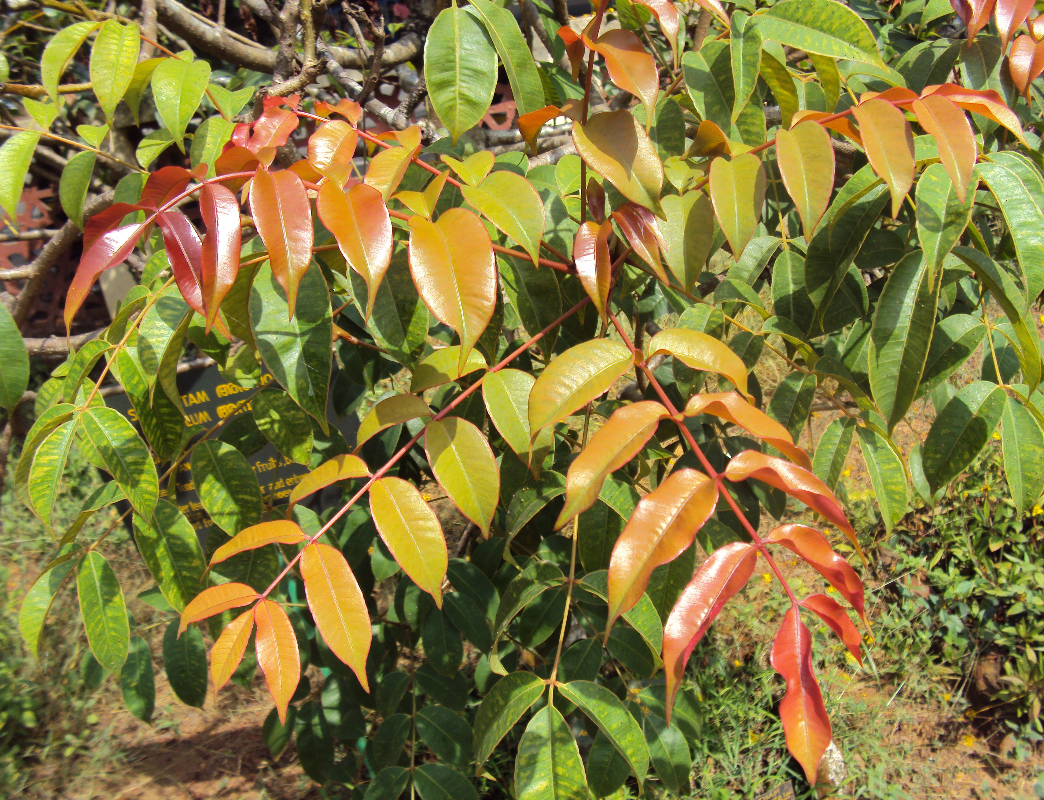 Taken from Botanical garden of Kariyavattam University Campus, Trivandrum.